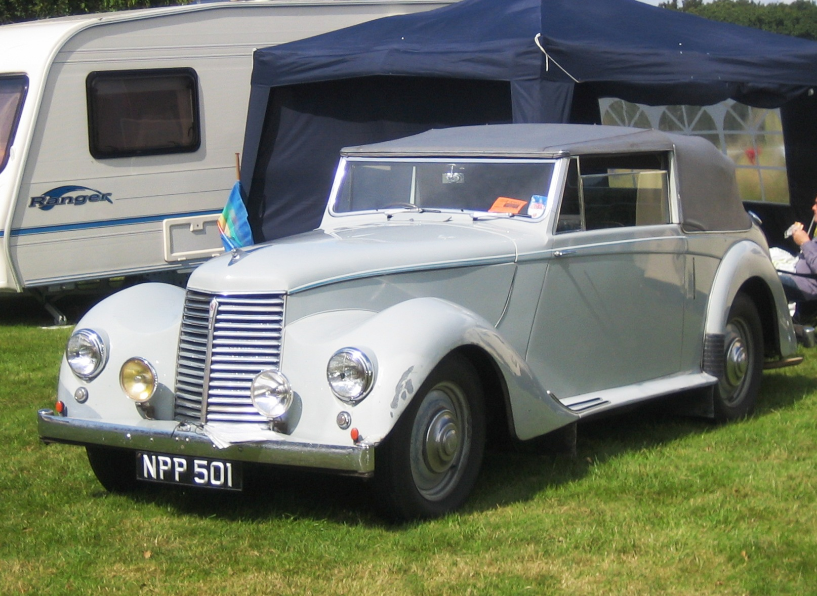 Armstrong Siddeley Hurricane Drophead Coupé ca 1950 at Classic car Show in Hertfordshire (DVLA) 2309cc, manf. 1950